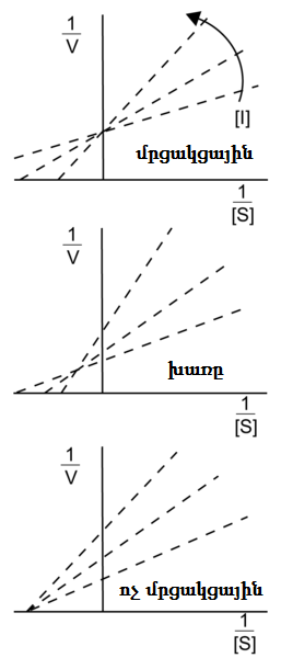 Inhibition diagrams